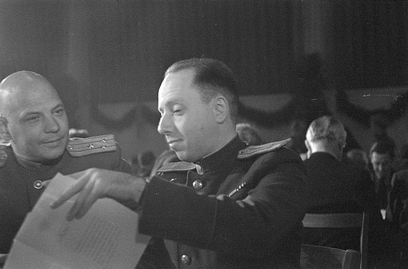 Original image description from the Deutsche Fotothek errorSergei Tulpanow (links) und Alexander Dymschitz